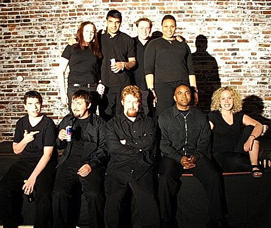 The cast of The N Crowd during its run at 213 New Street in Philadelphia. Top Row: Jess Snow, Aksay Sateesh, Brandon Libby, Kennedy Allen. Bottom Row: Steve Cohen, Mike Connor, B.J. Ellis, Ray Reese, Jackie Danziger